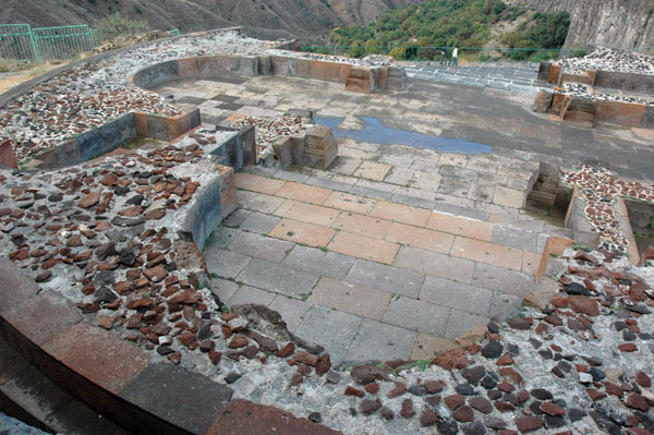 St. Sion church, Garni, Armenia